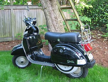 Author: Jeremy Pettibon Source: self